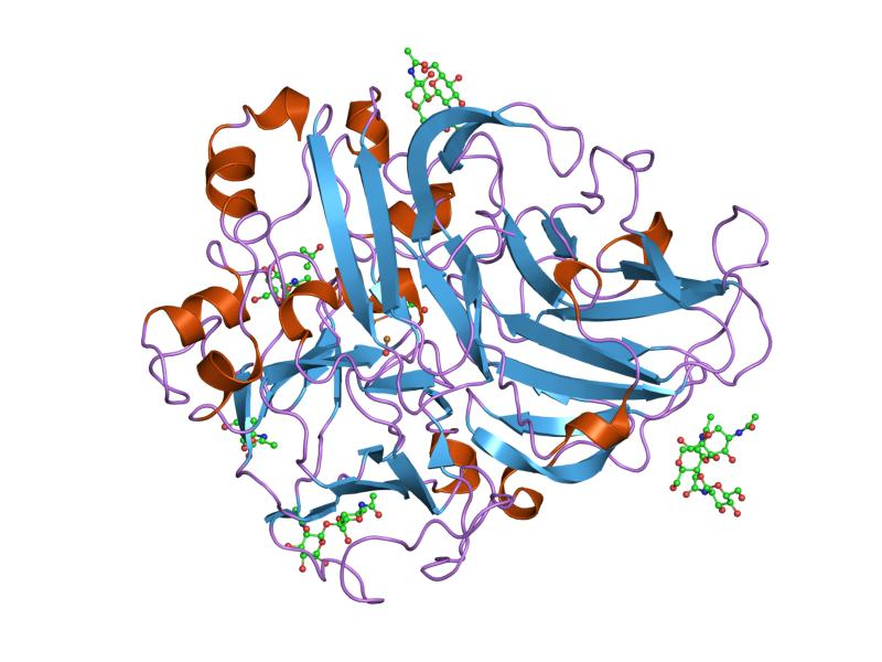 Cartoon representation of the molecular structure of protein registered with 1gyc code.